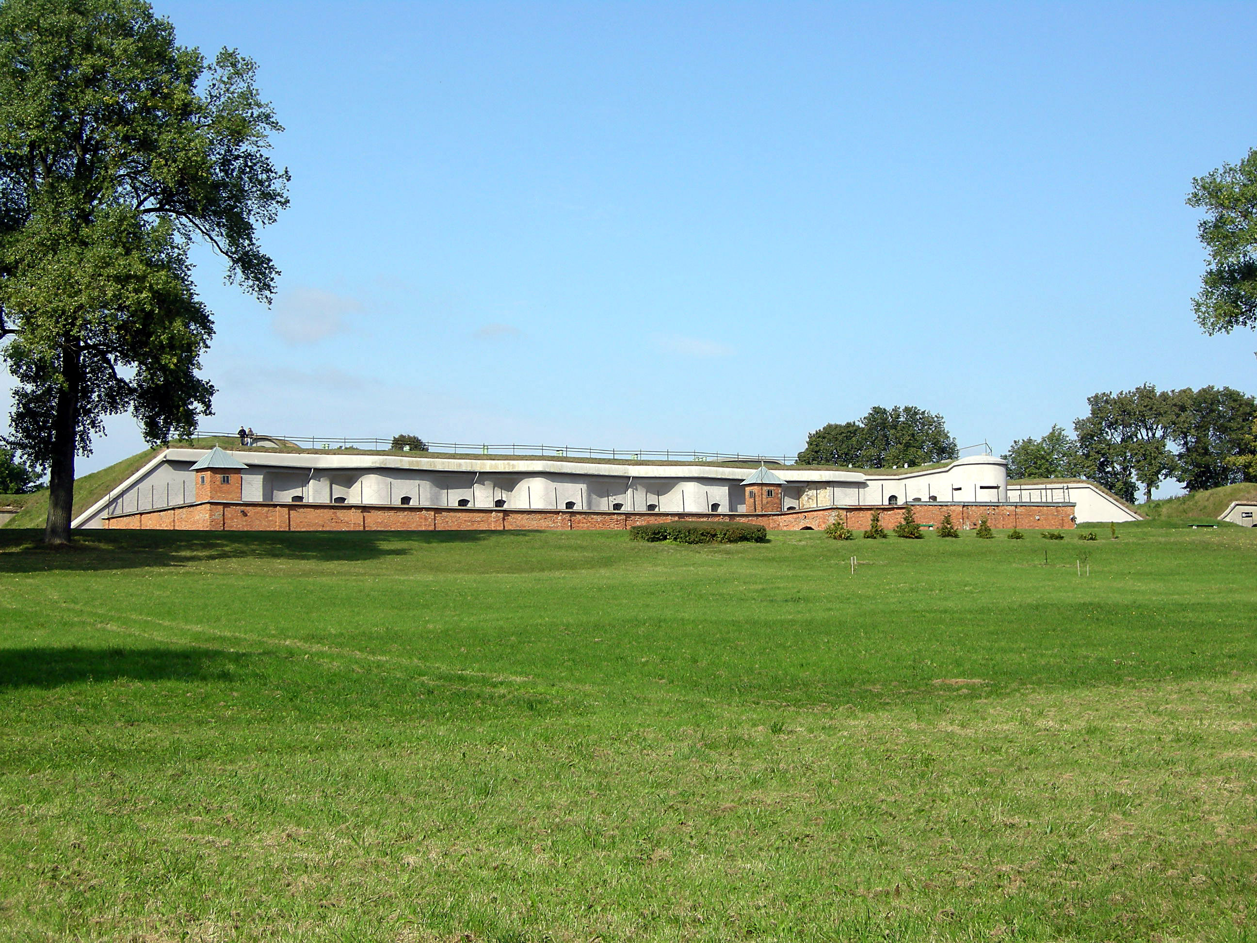 Ninth Fort, part of the Kaunas Fortress.